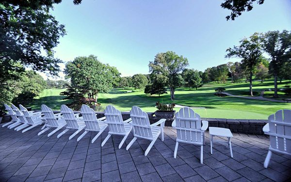 View from the clubhouse patio, overlooking the 8th and 9th holes.